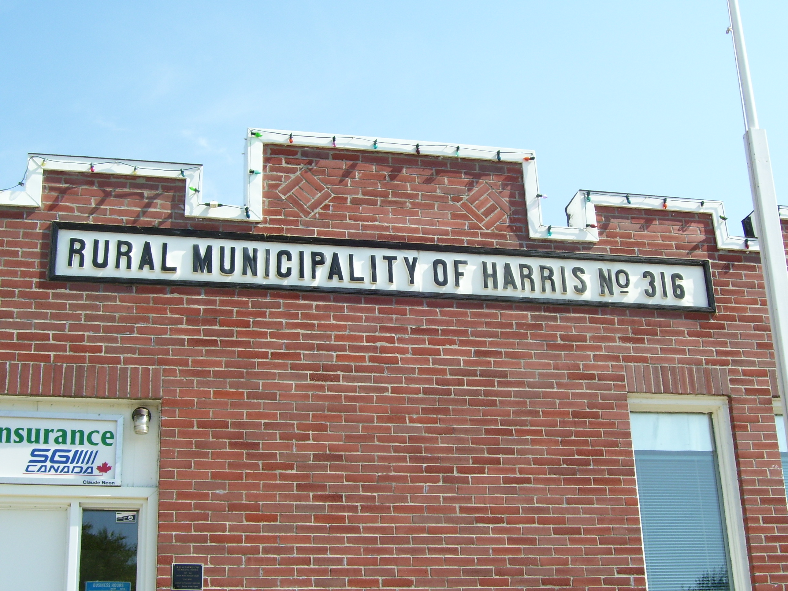 taken in Harris, SK, Canada This is the Rural municipality or civic government building for a non urban area of SAskatchewan See also List of rural municipalities in Saskatchewan